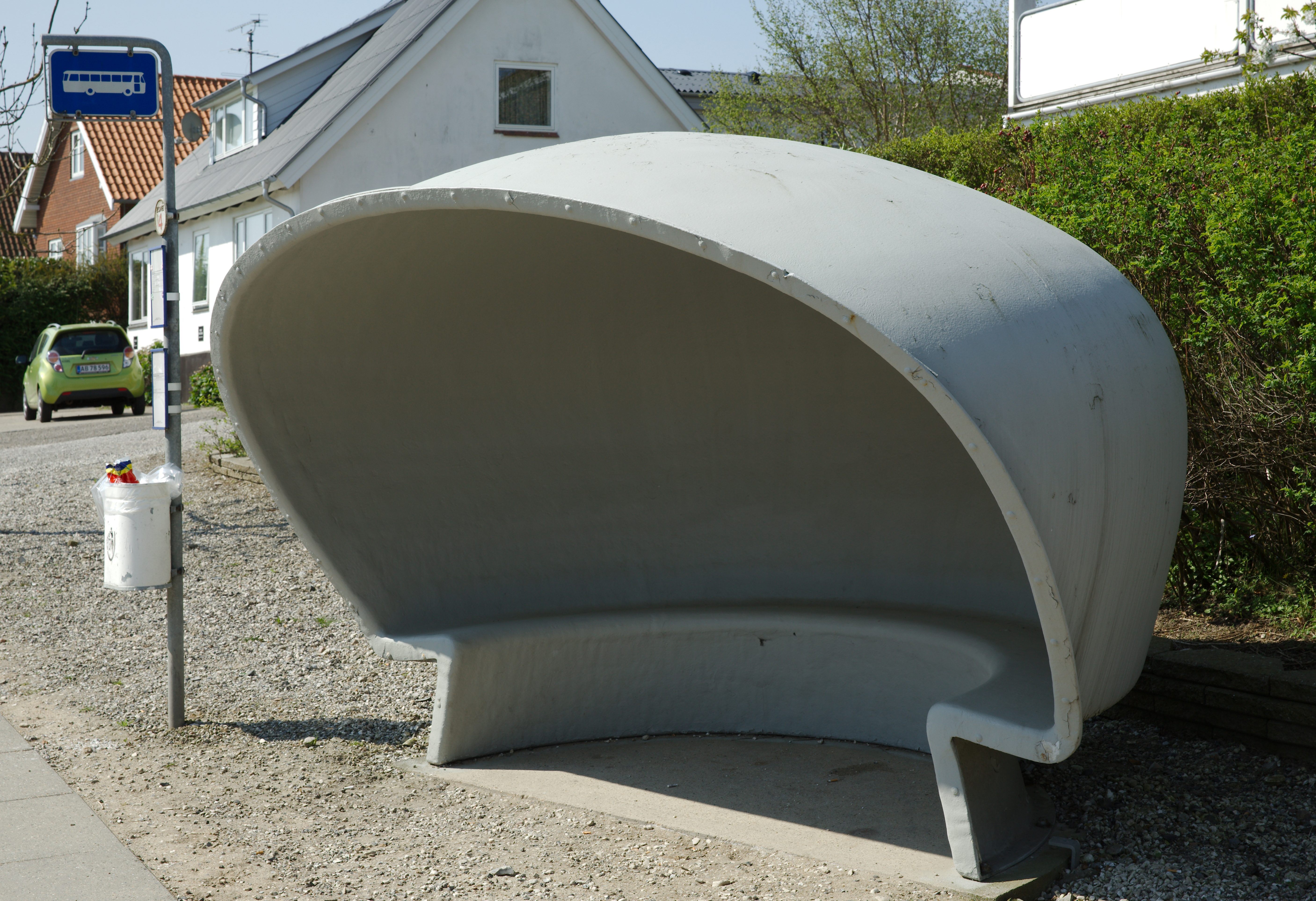 Bus stop and bus shelter in Løgten near Aarhus